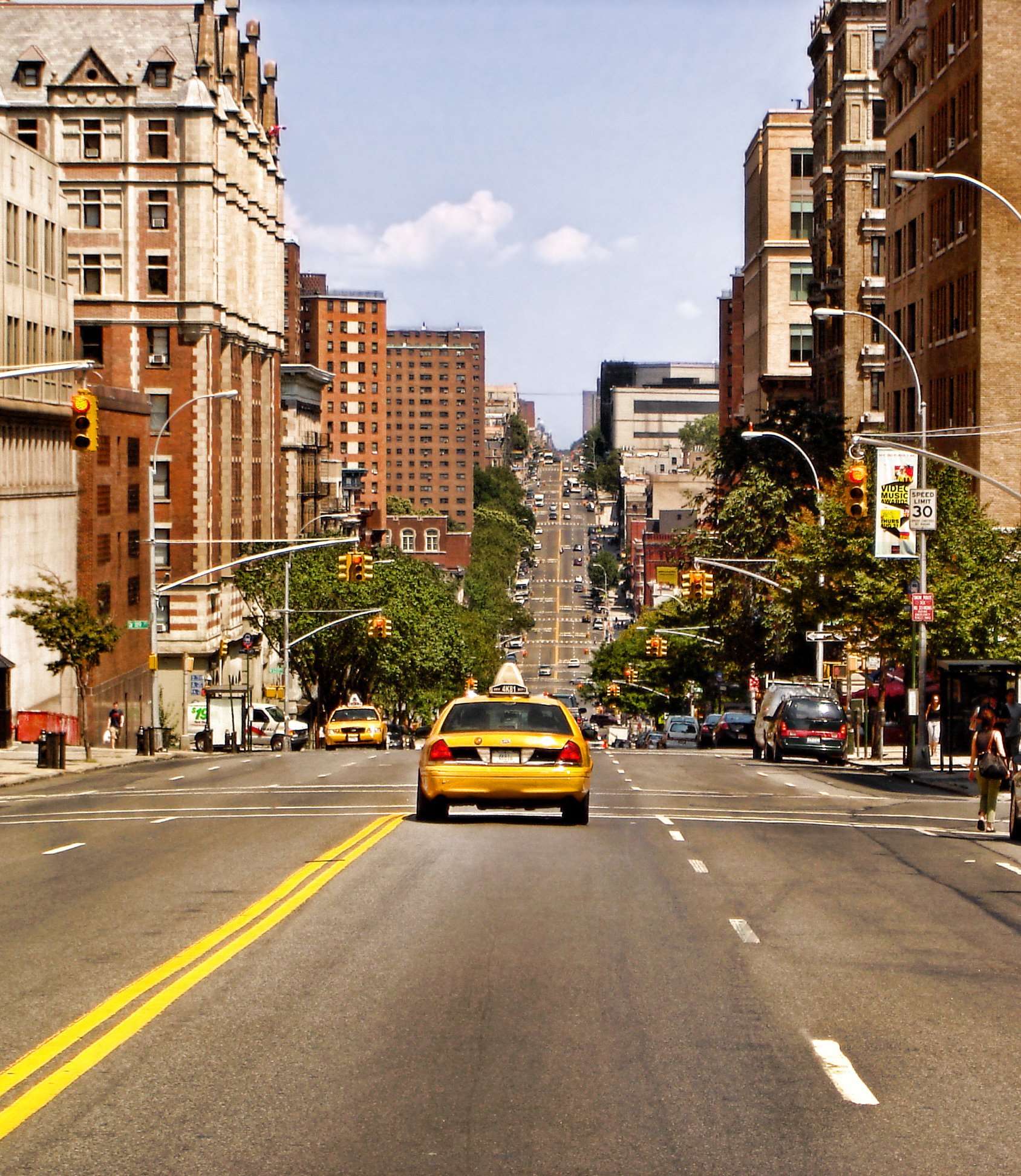 View of Amsterdam Avenue looking north from the Columbia University